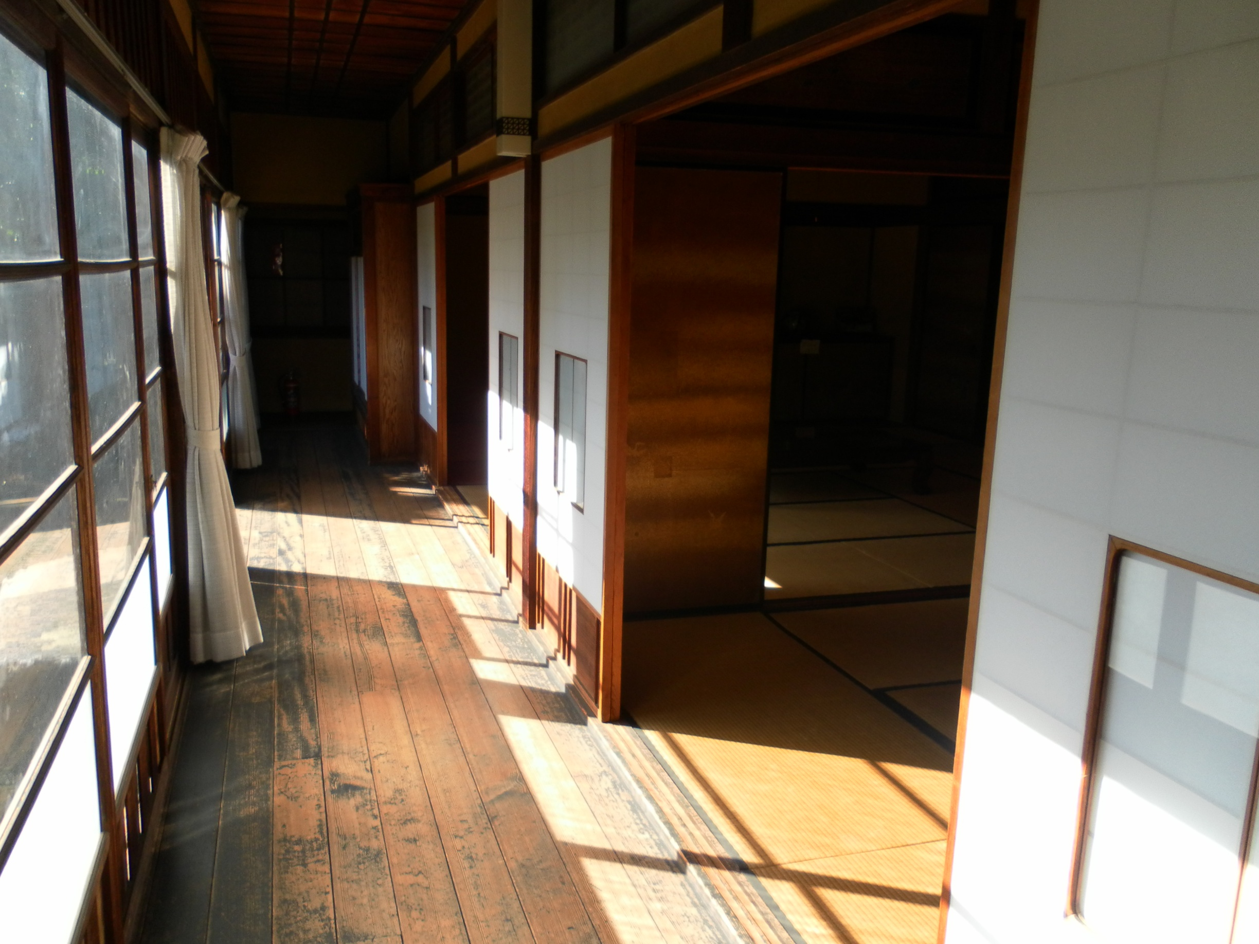 Engawa of the Toyoda Sasuke House in Nagoya, Aichi Prefecture, Japan.